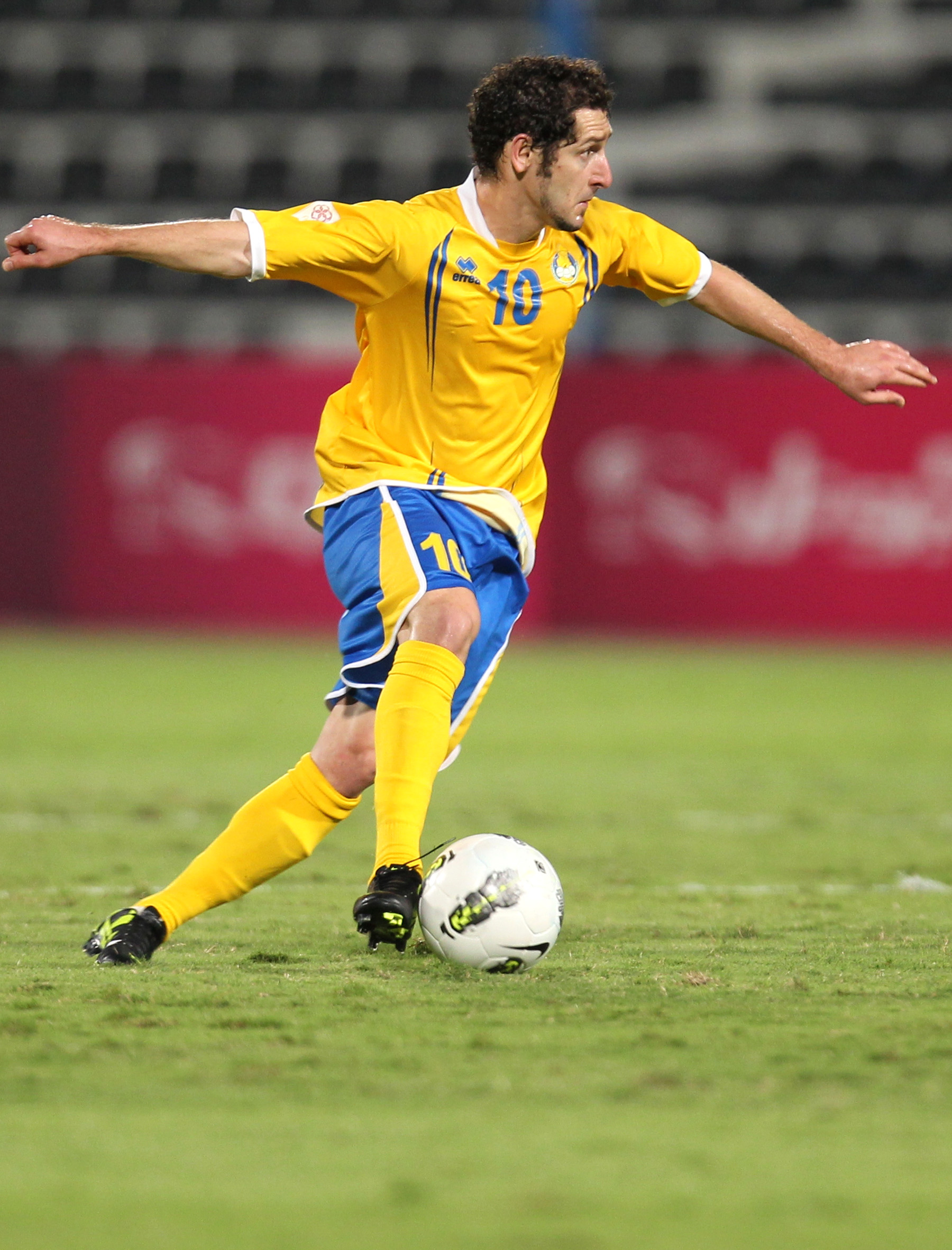 Al Gharafa's Iranian professional Mohammed Reza Khalatbari in action during the Qatar Stars league match.